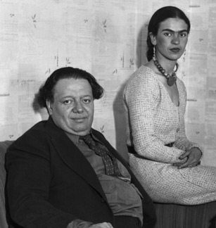 Diego Rivera, Frida Kahlo & Anson Goodyear